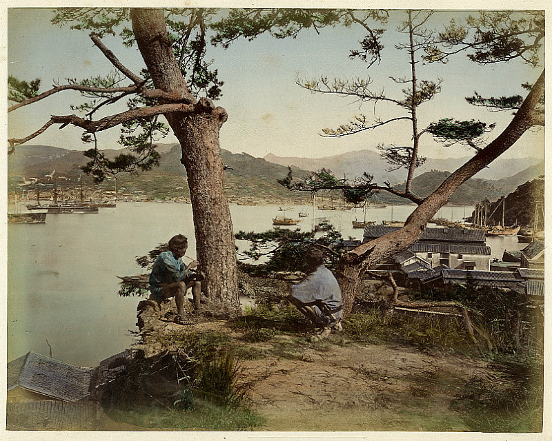 Kuichi Uchida View of Nagasaki Japan 1872 Hand-colored Vintage Albumen Print